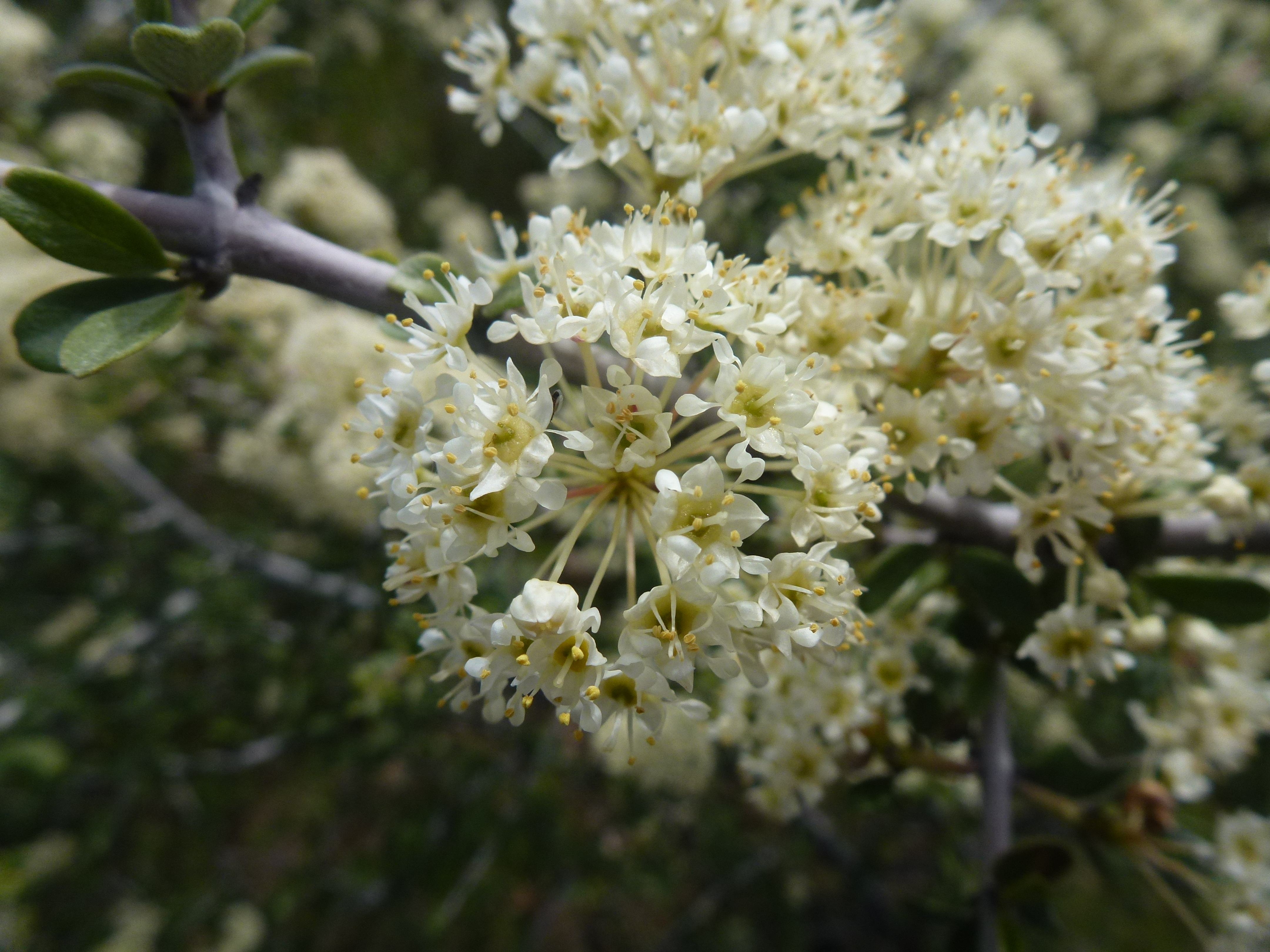 Buckbrush (Ceanothus cuneatus) in bloom on the slopes of Lower Table Rock.